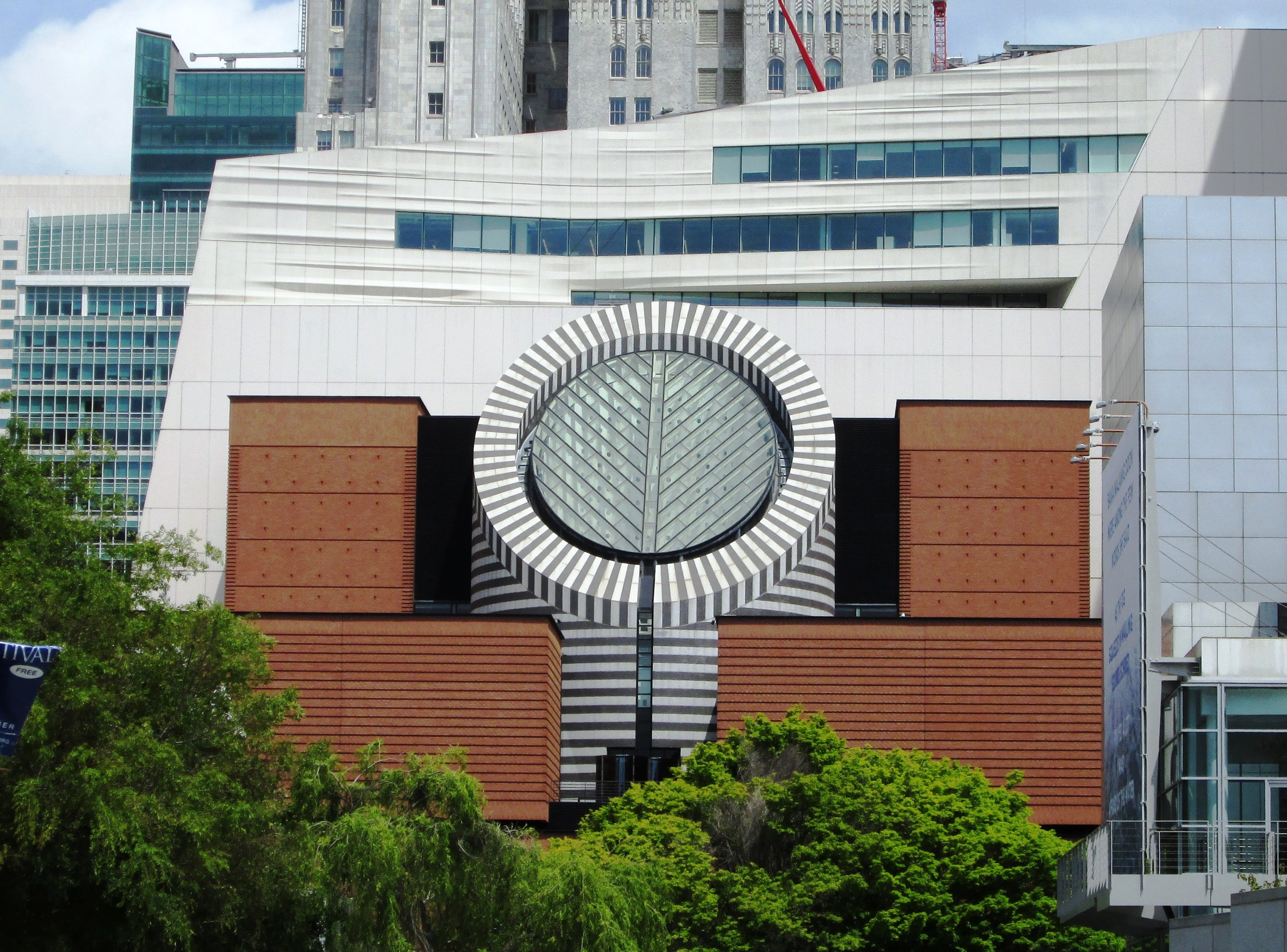 The San Francisco Museum of Modern Art (SFMOMA) as seen from Yerba Buena Gardens. Behind the 1995 Mario Botta-designed building can be seen the museum's new (2016) Snøhetta-designed building, which more than doubled the museum's presentation capacity.